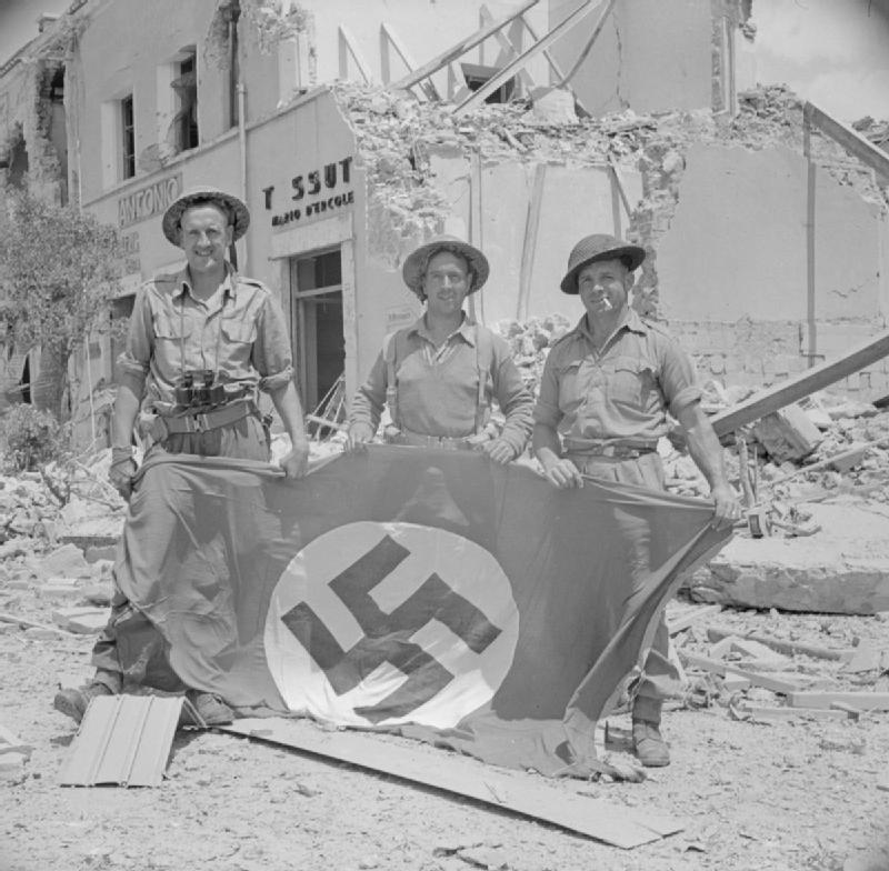 The British Army in Italy 1944 Troops of the 1st Reconnaissance Regiment pose with a captured German swastika flag in Littoria, 25 May 1944. They are, left to right: Cpl H Seddon, Tpr R Carslake and Tpr J Callaghan.